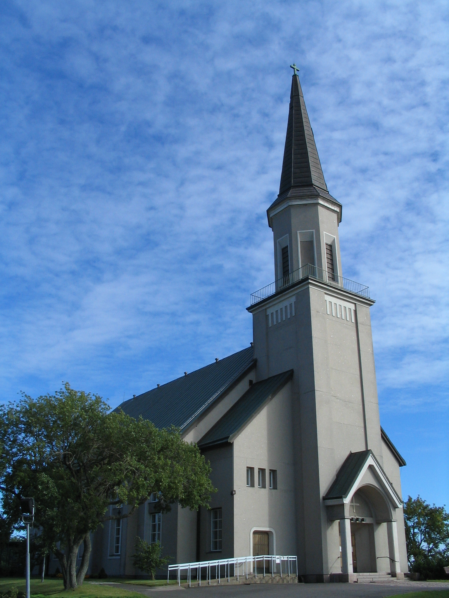 The church of Hanko, Finland.